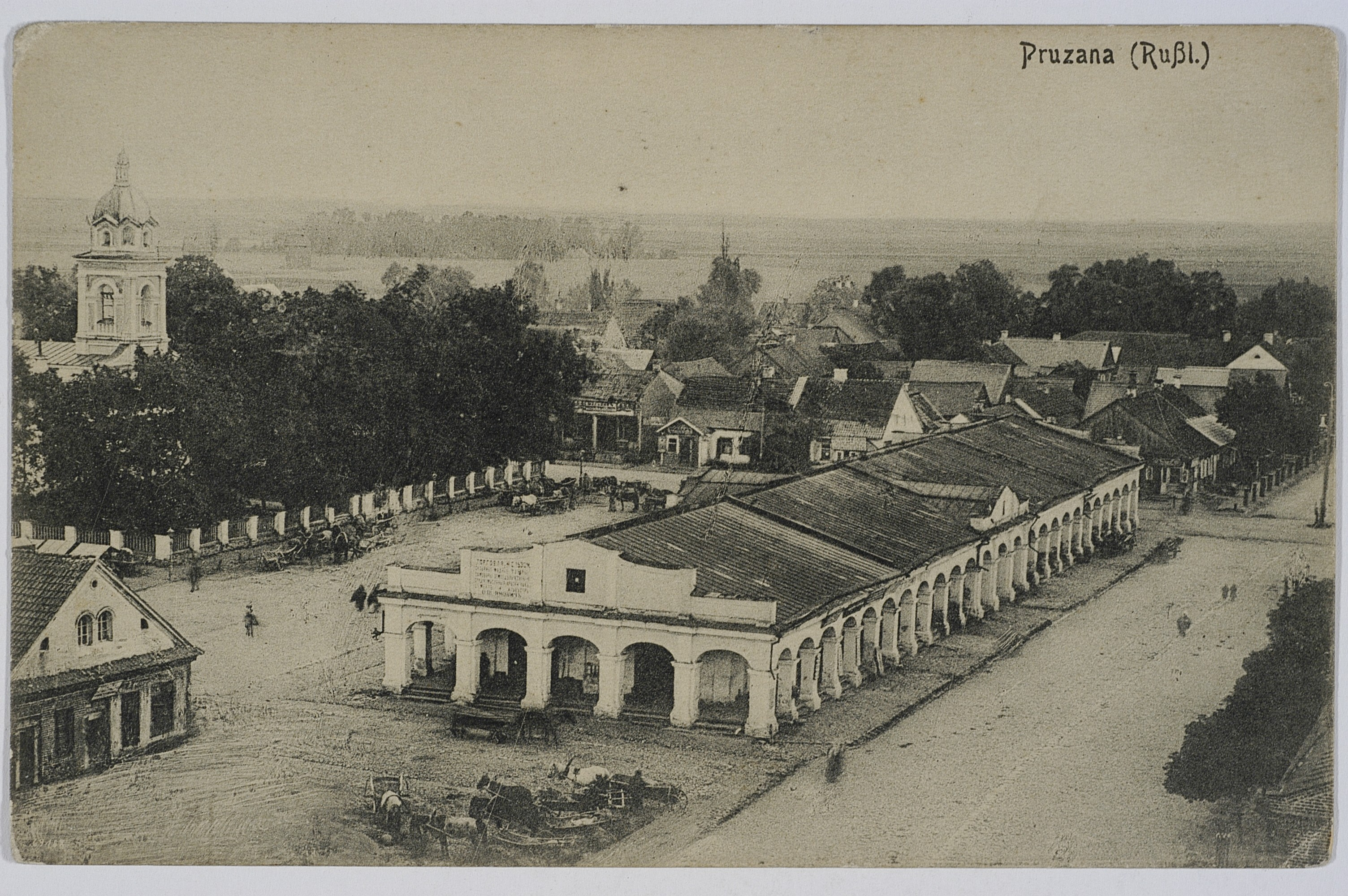 Market in Pružany